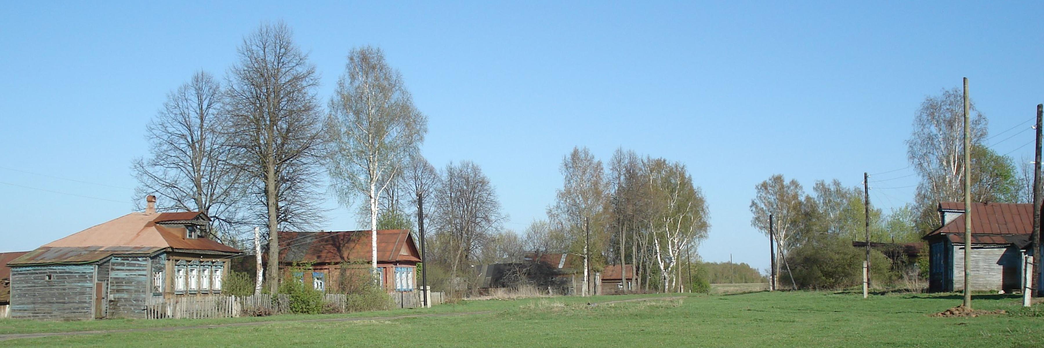 View of the village of Krasno. Niezhgorodskaya oblast.